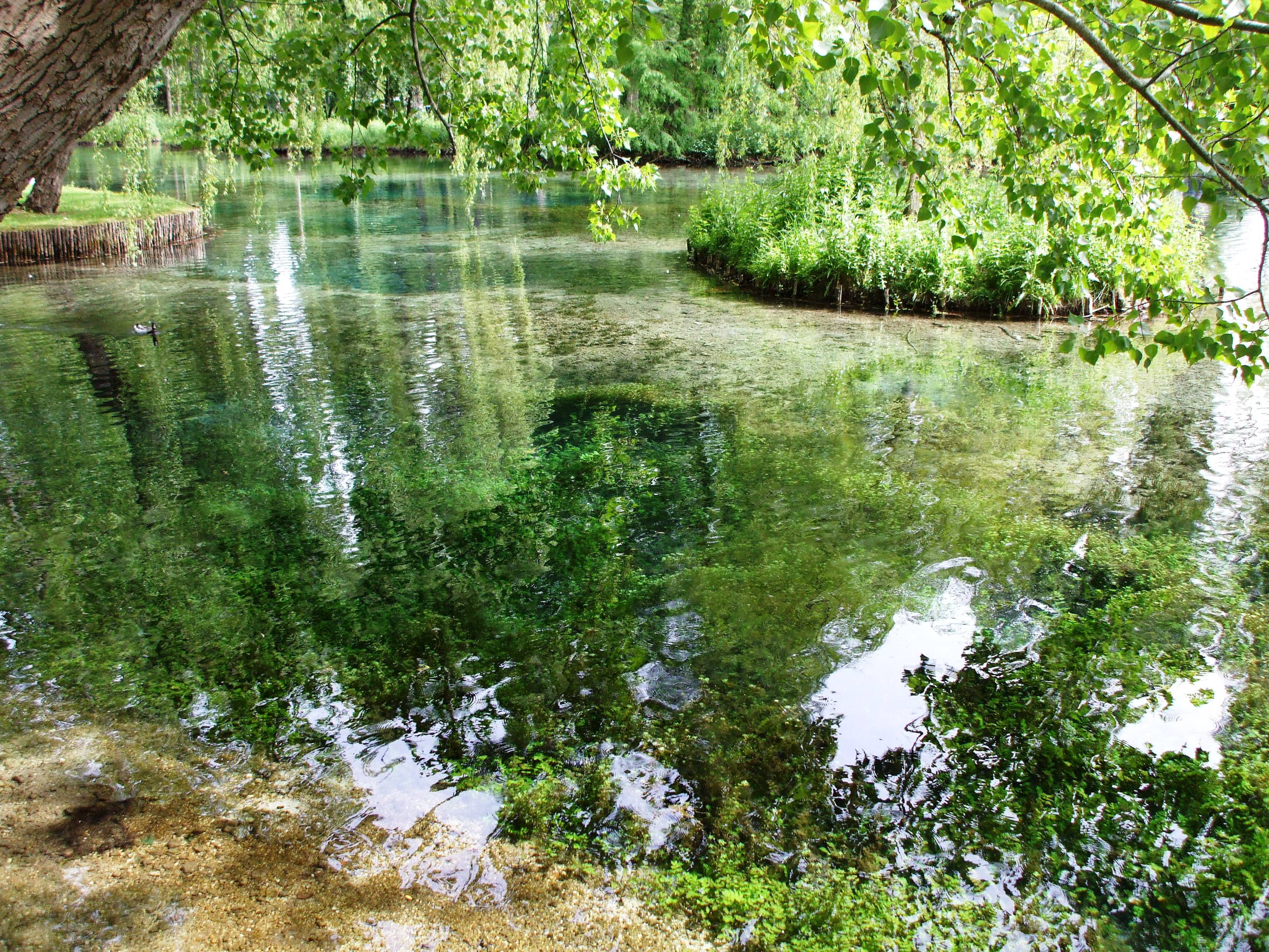 Fonti del Clitunno - The Sea